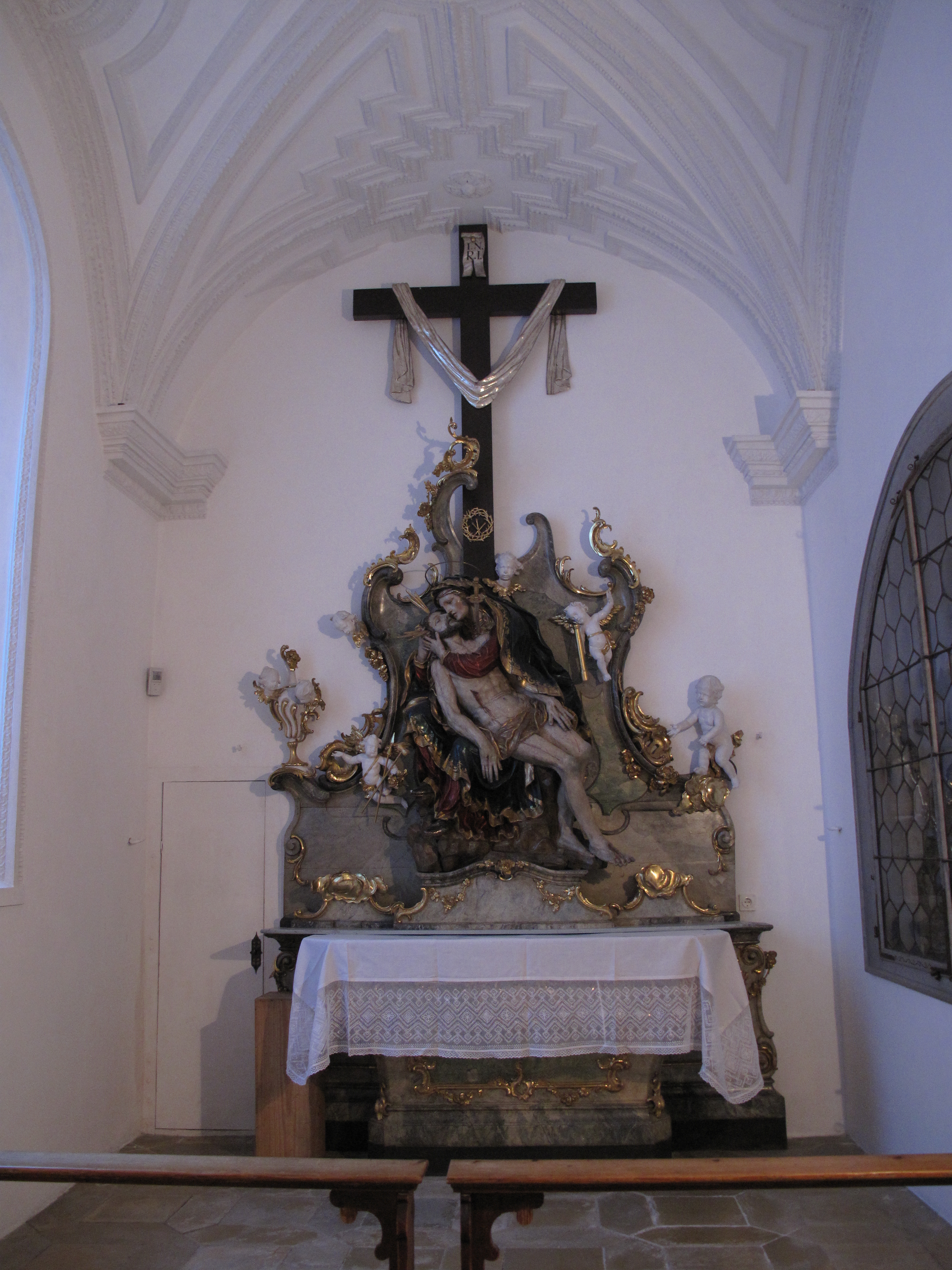 Interior of the Schmerzhafte Kapelle of the church of Andechs Abbey.